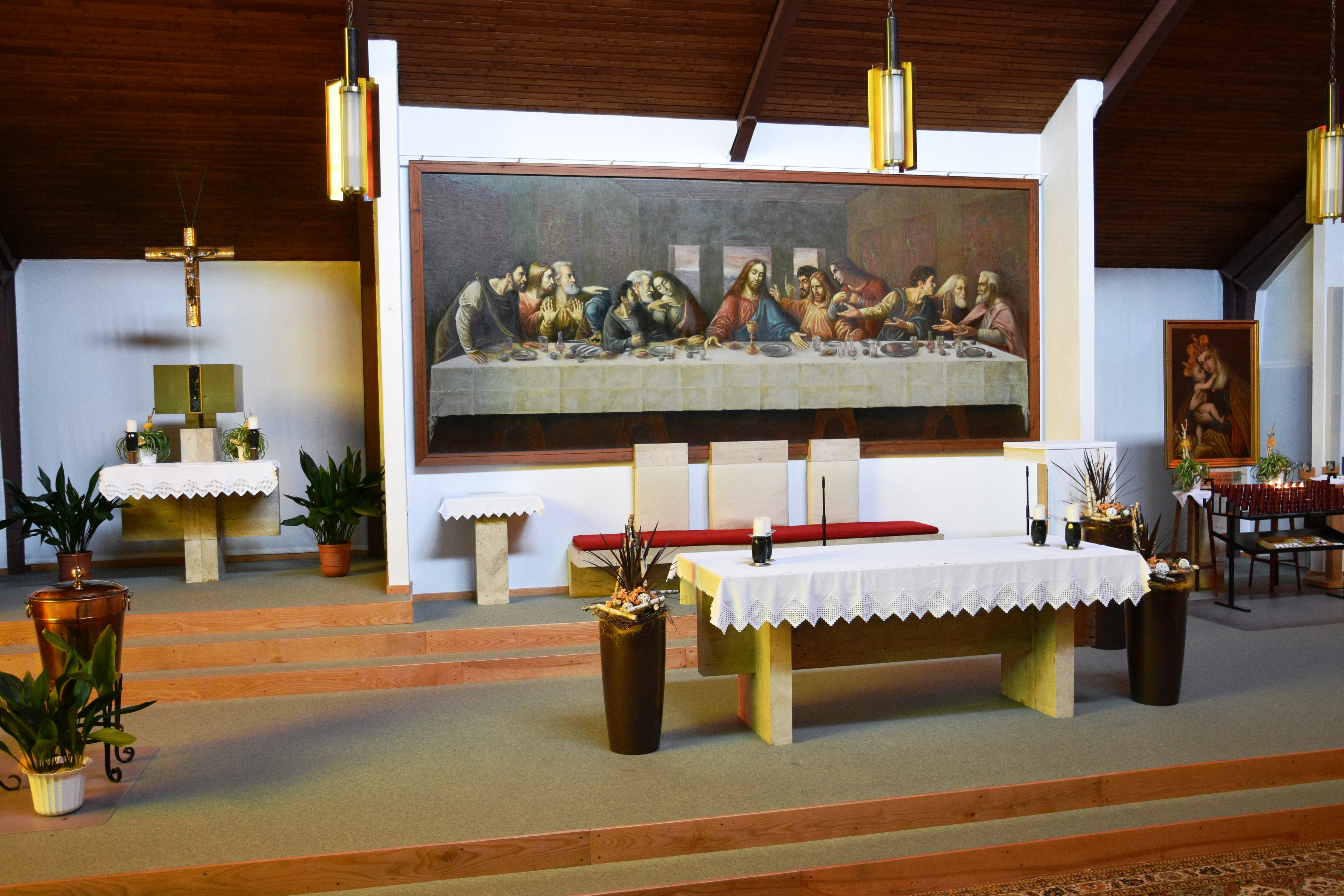 Saint Mary Church (Bad Schönau) - Interior